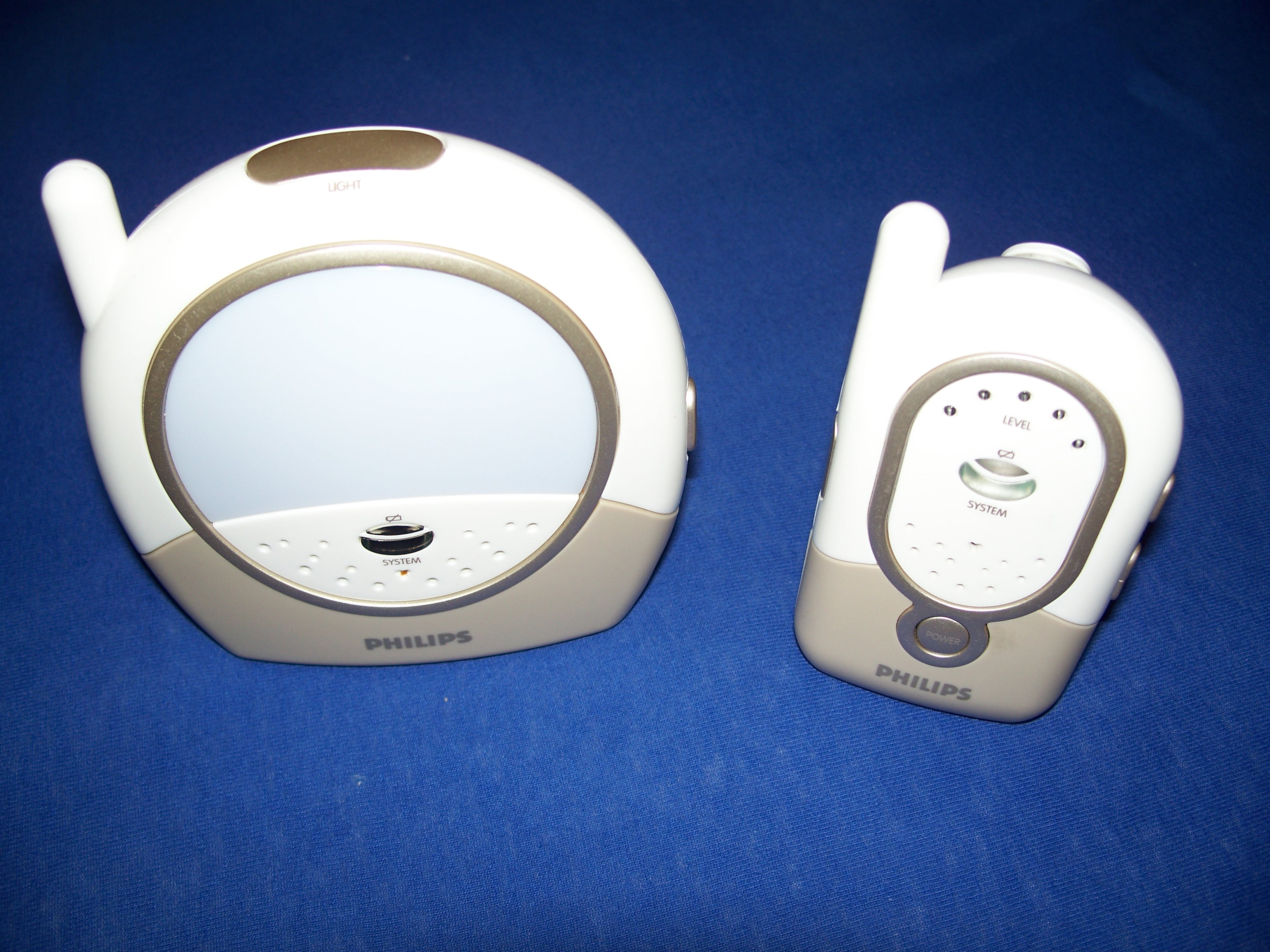 Philips DECT Babyphone: baby unit (left side), parent unit (right side).